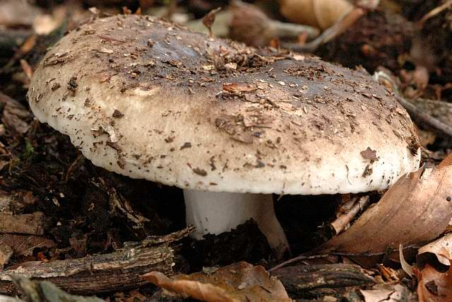 Russula nigricans from Commanster, Belgian High Ardennes. The determination of the species shown in this picture has been verified.